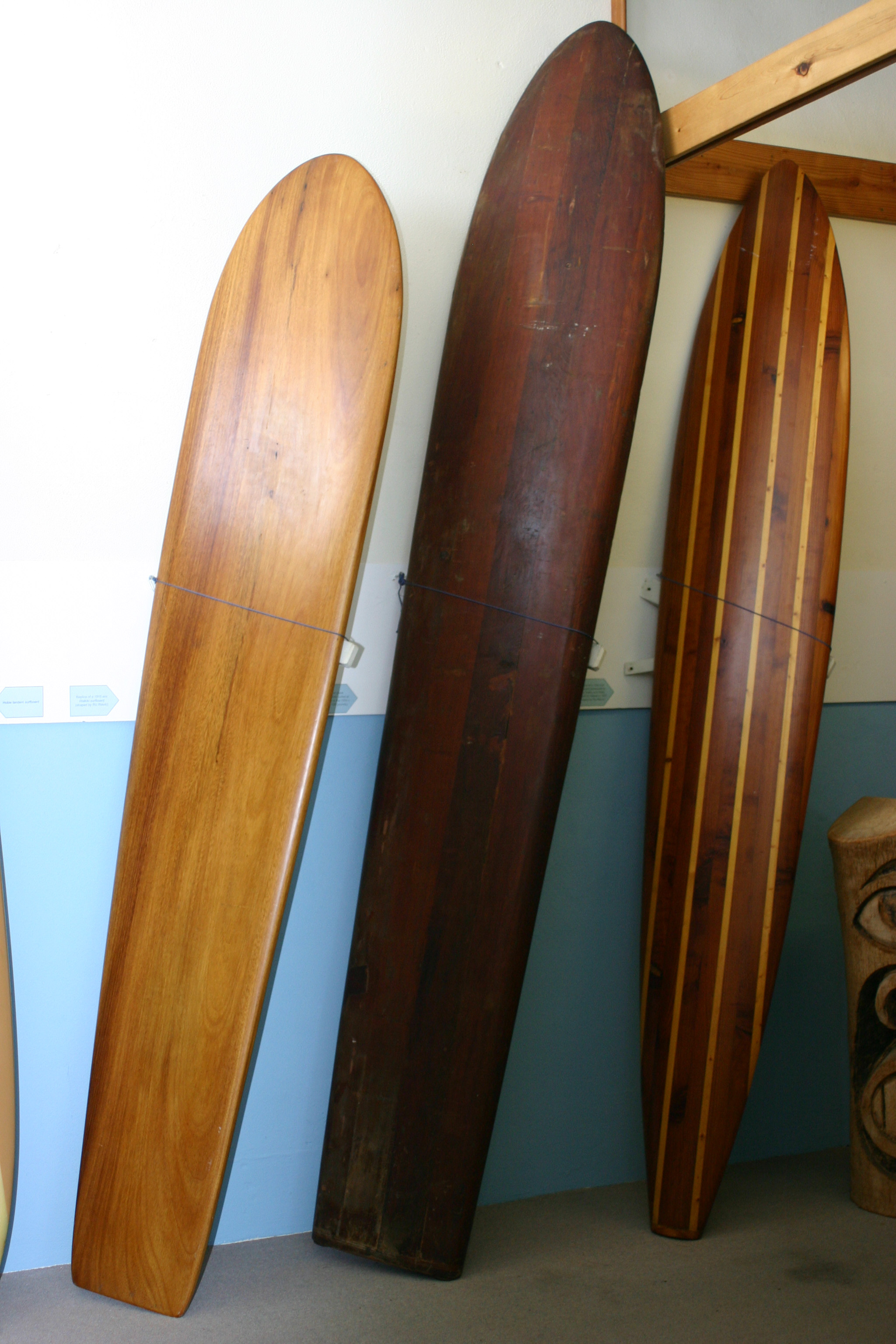 Picture of surf boards from California Surf Museum